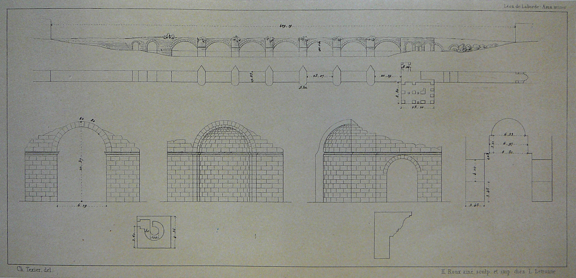 Drawing of the late Roman Sangarius Bridge, Turkey, from 1838. Above side and top view, below the vanished triumphal arch in the west and the still existing conch in the east of the bridge.